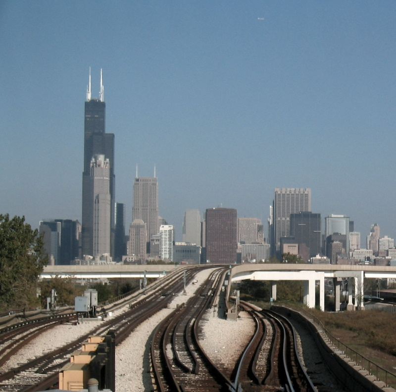 view of chicago downtown from the Chinatown station